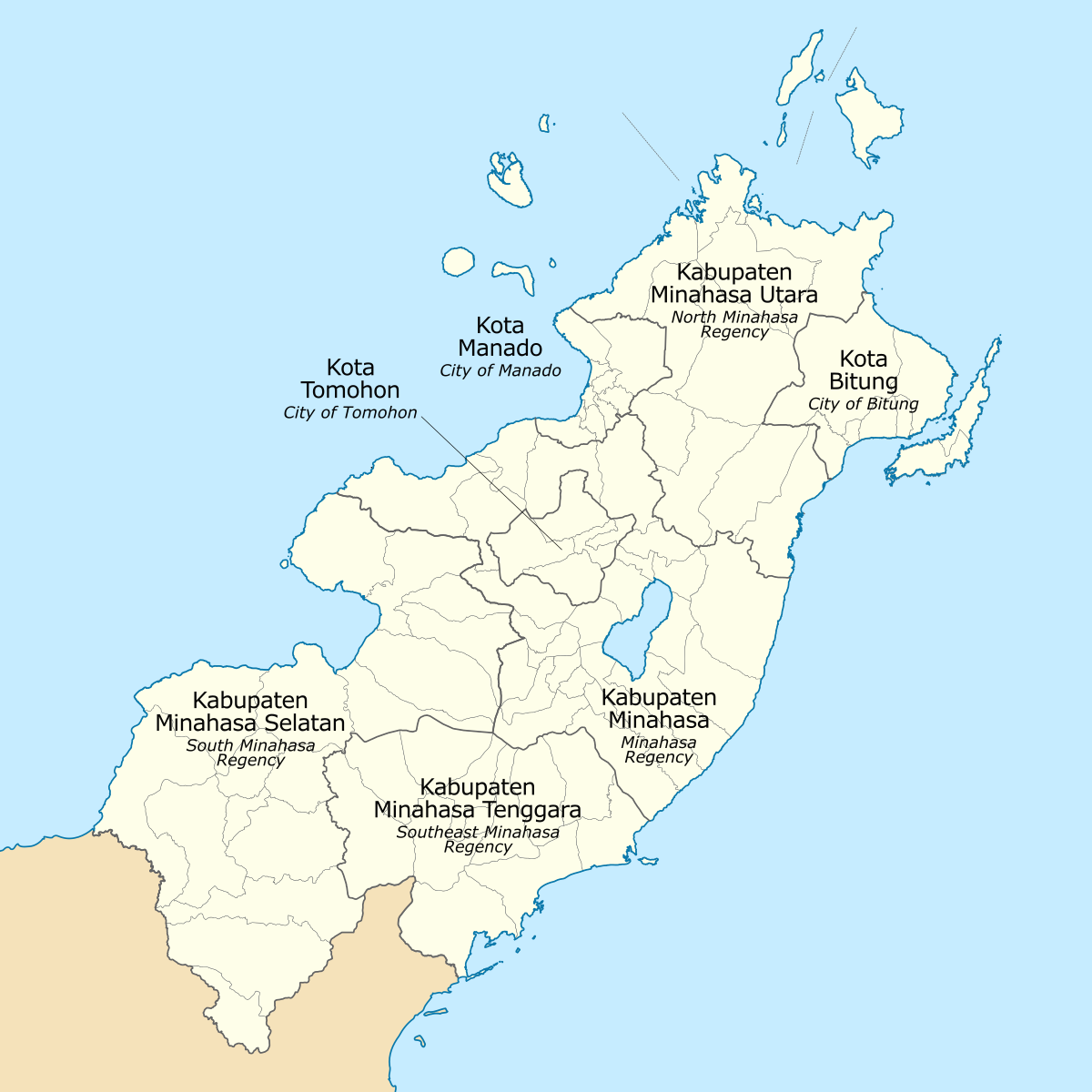 Map of the Greater Minahasa region in North Sulawesi, Indonesia. Map data from tanahair.indonesia.go.id and kpu-sulutprov.go.id.